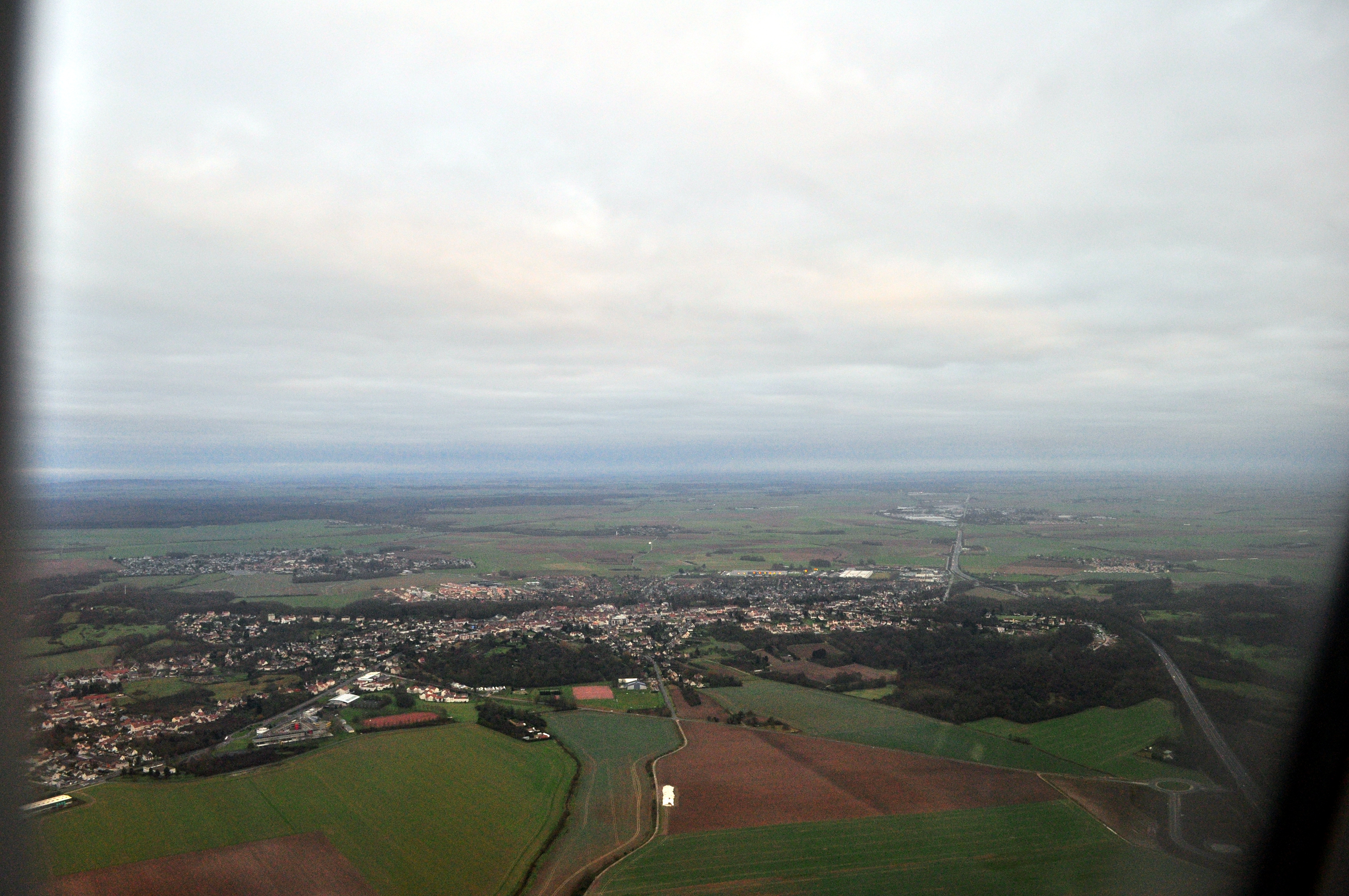 Aerial photograph of Dammartin-en-Goële (Seine-et-Marne), Lagny-le-Sec (Oise) and Le Plessis-Belleville (Oise), France.